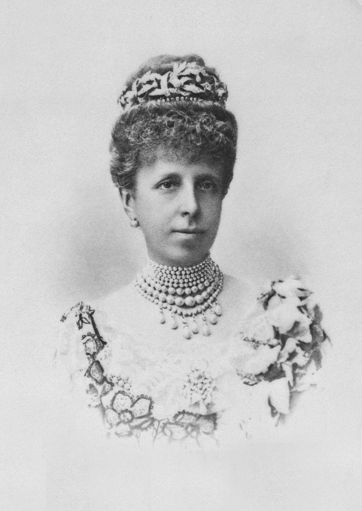 Photographical portrait of Maria Christina of Austria, Queen of Spain by marriage to Alfonso XII.